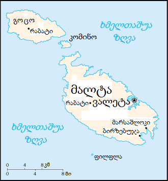 Malta map in georgian